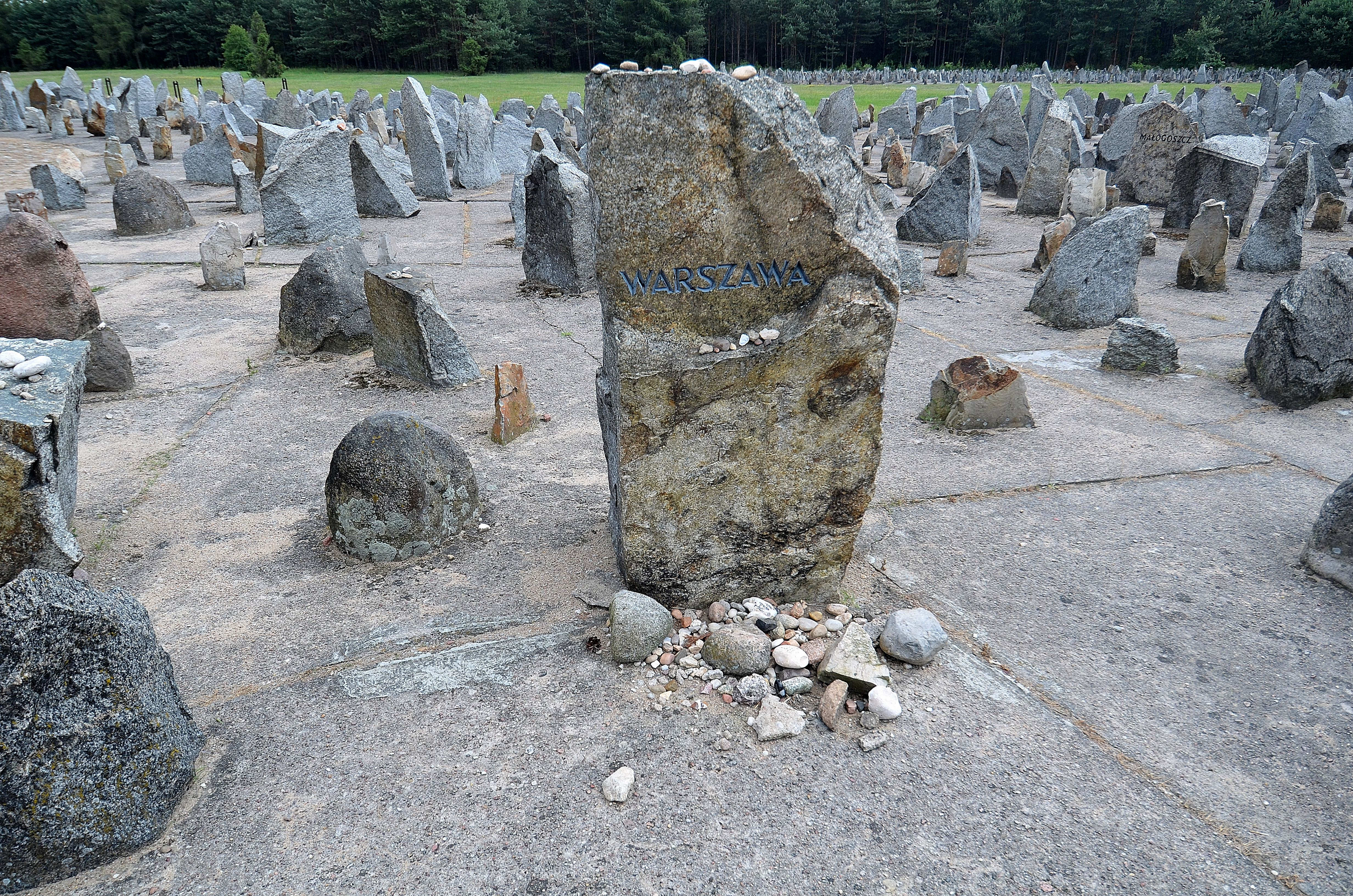 A stone in memory of Jews from Warsaw among 17,000 stones at Treblinka II death camp